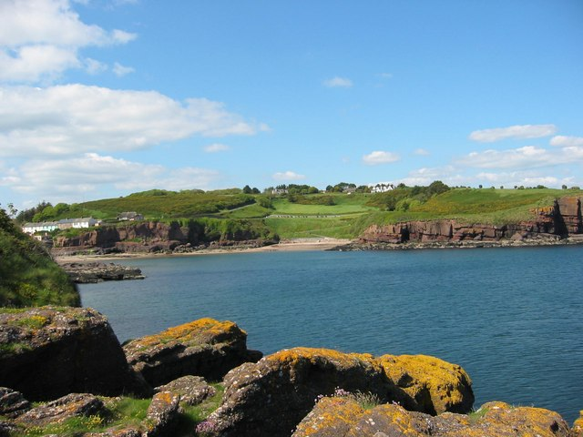 Dunmore East